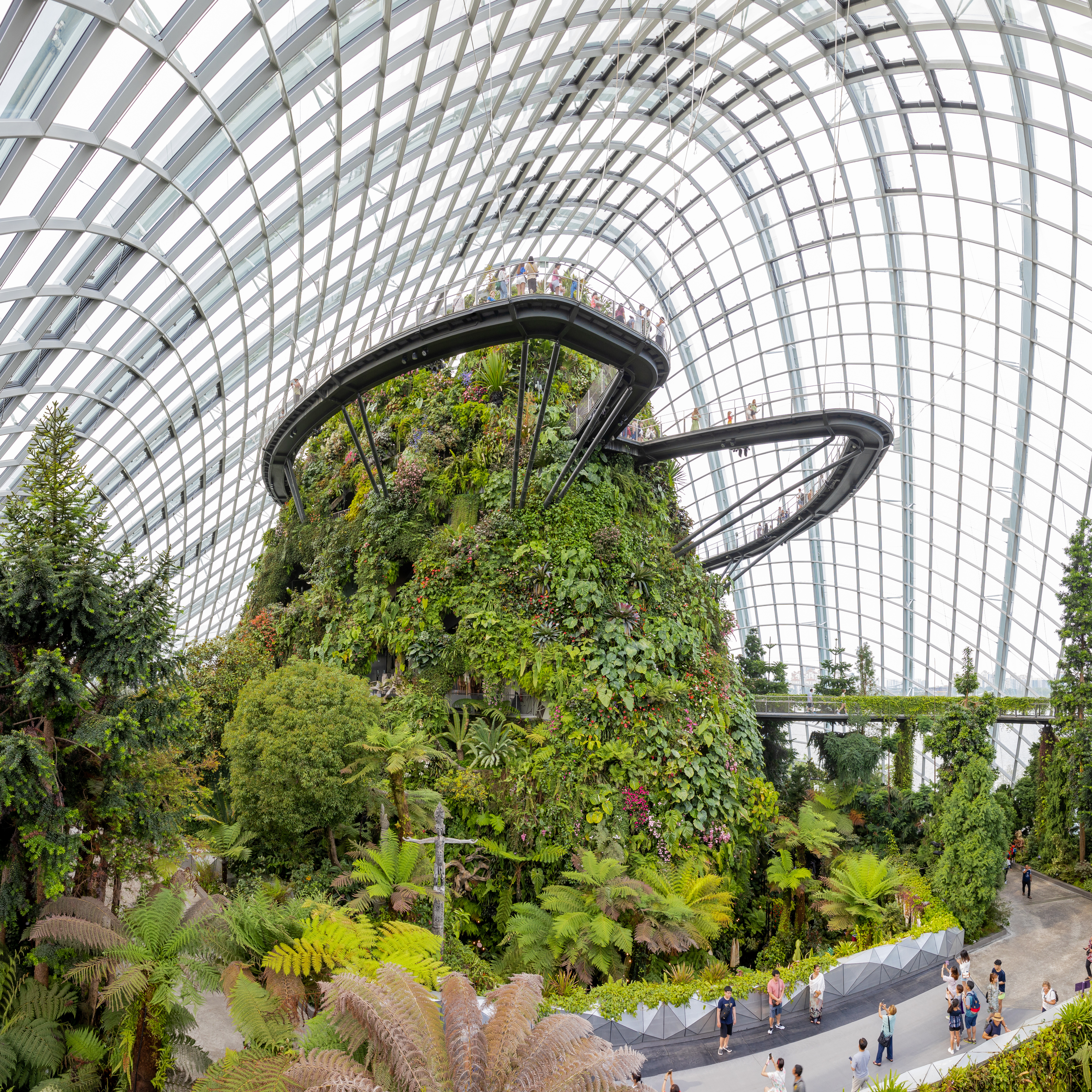 Cloud Forest, Gardens by the Bay, Singapore.